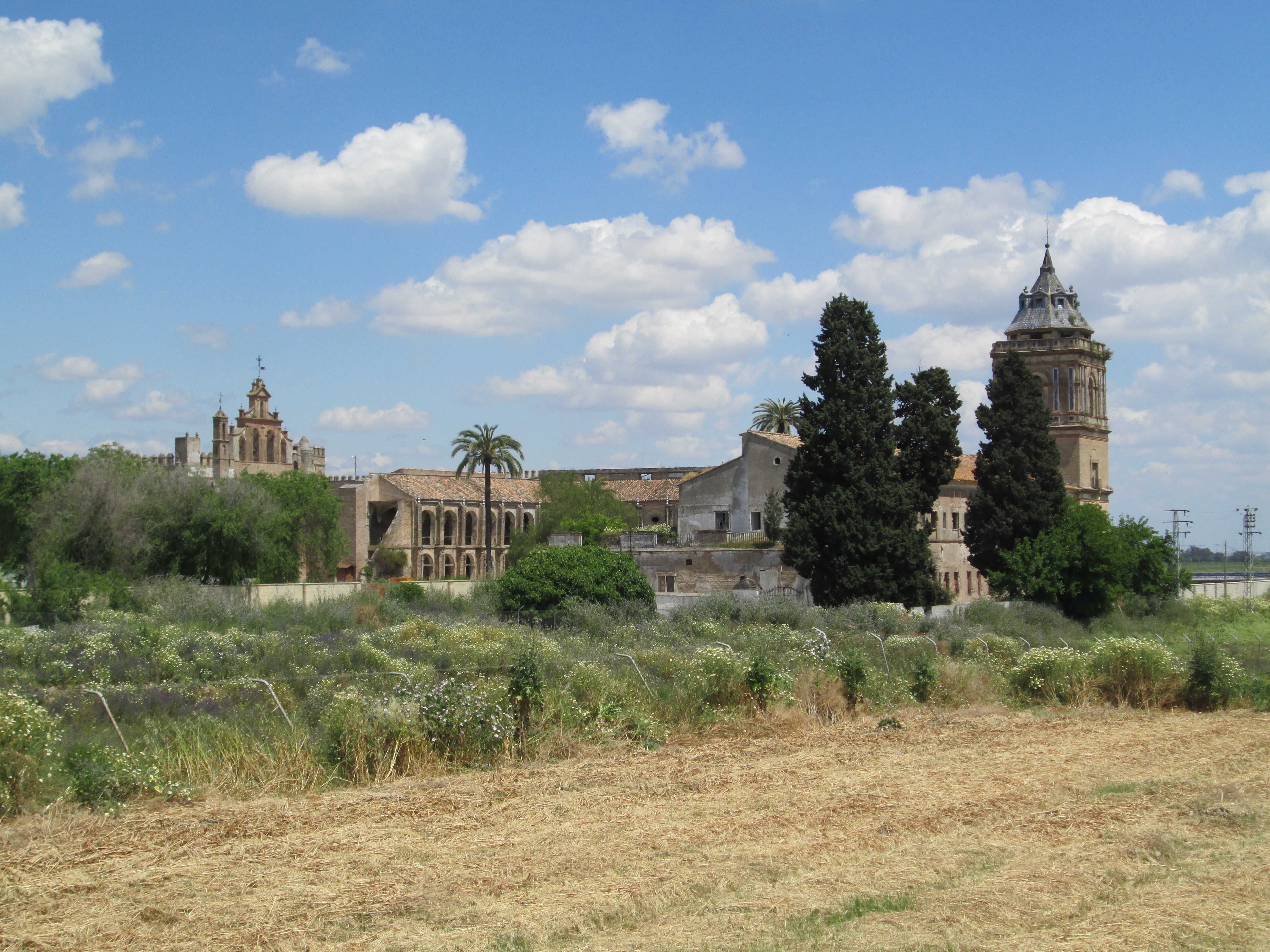 Monastery of San Isidoro del Campo, Santiponce